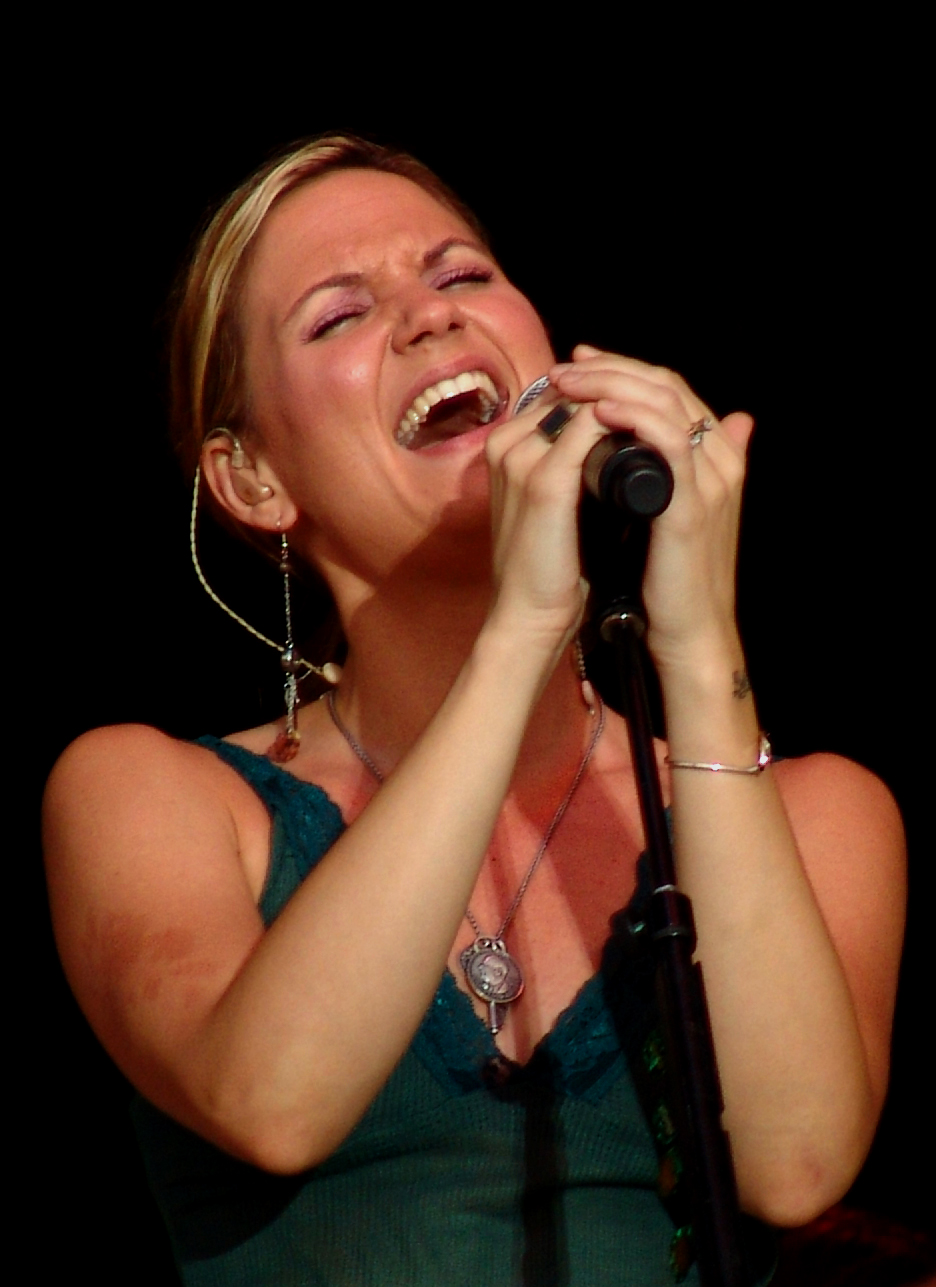 Sugarland Concert Elkhart, Indiana Count Fair